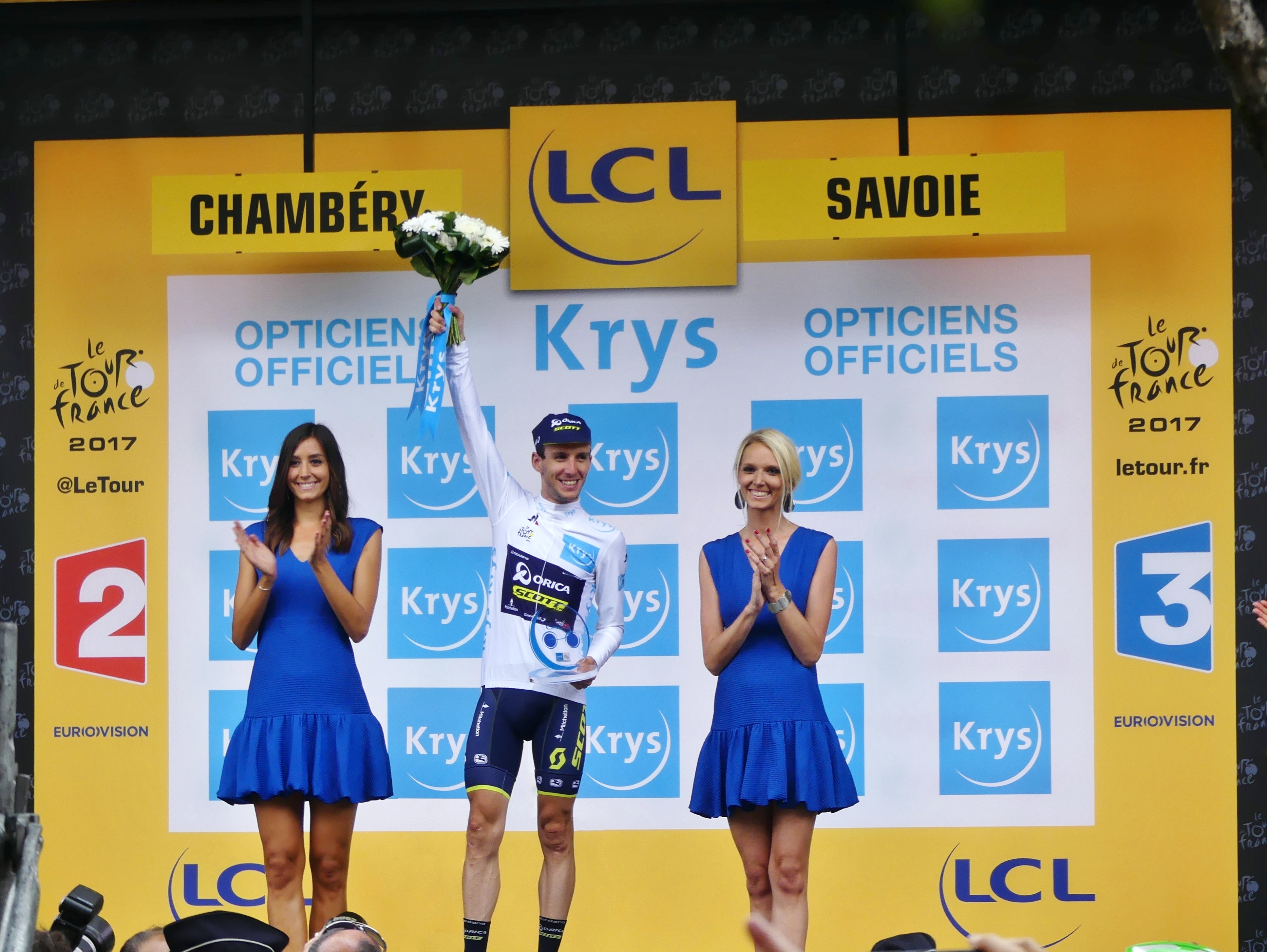 Sight of Simon Yates wearing the jersey of the best young rider, on the podium at Chambéry (Savoie, France) at the end of the 9th step of Tour de France 2017.